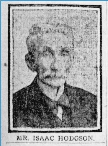 Isaac Hodgson portrait from August 17, 1902 article [Minneapolis] Star Tribune article "Honor to Whom Honor is Due."